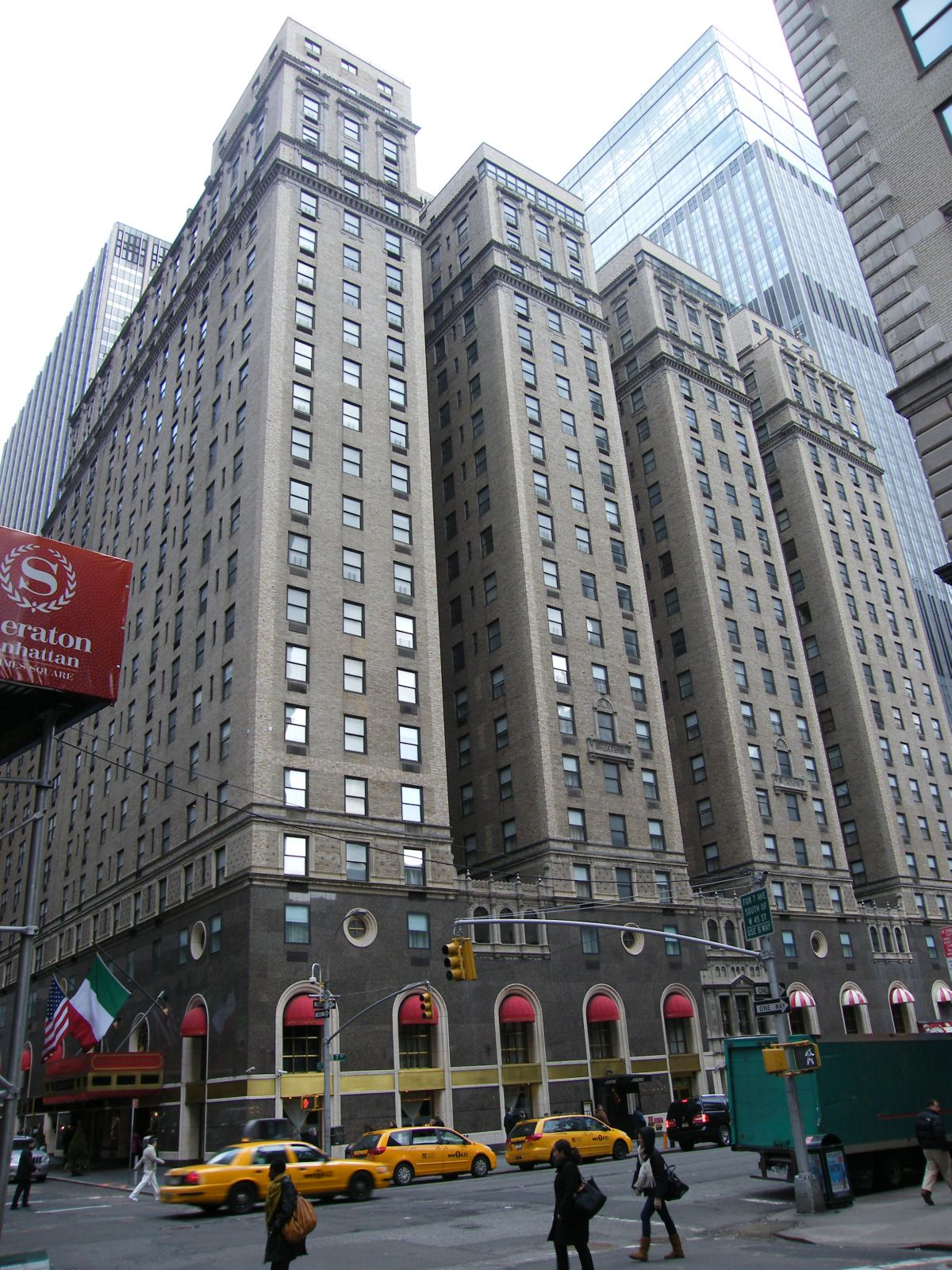 Taft Hotel in New York City